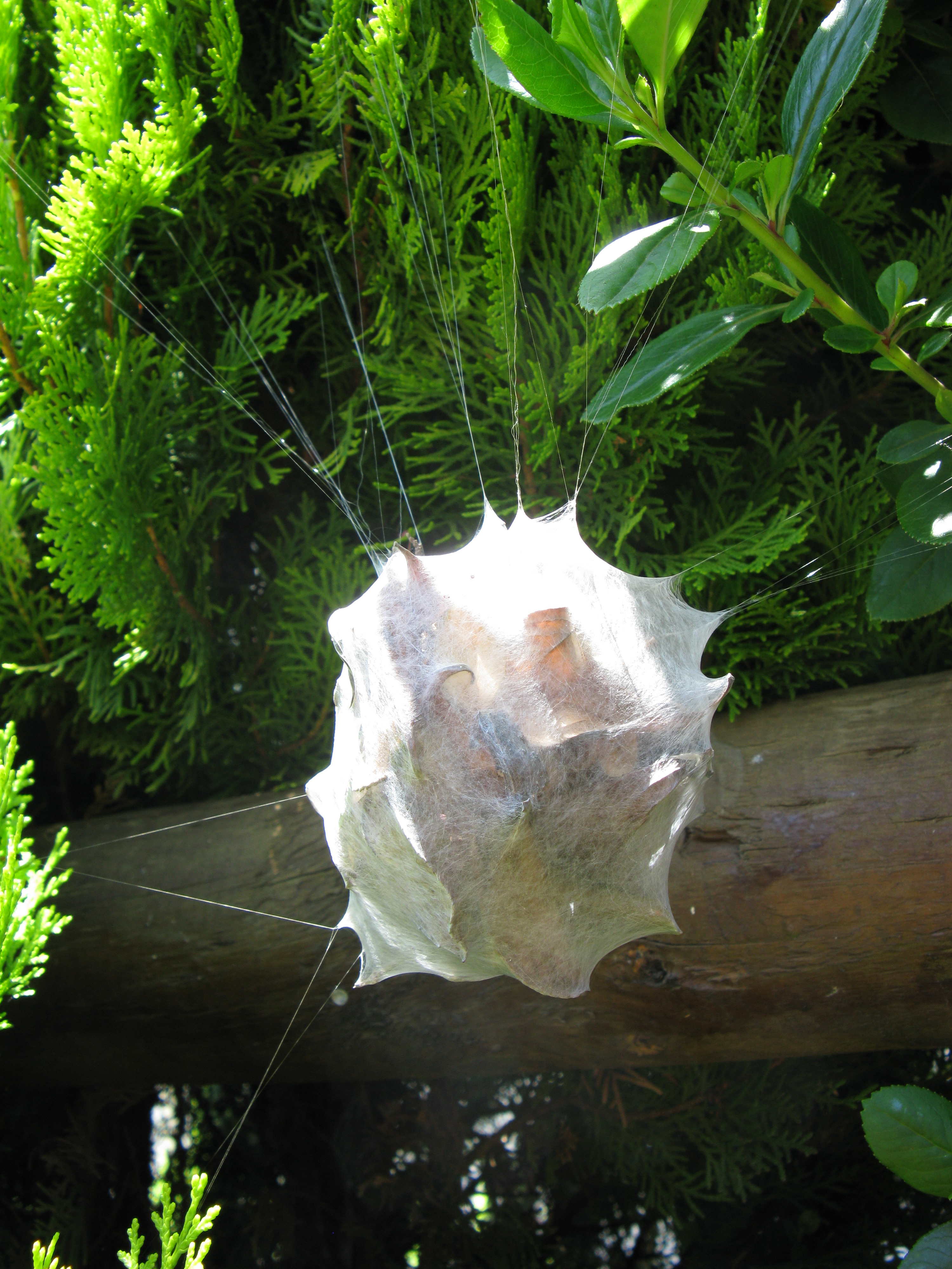 This is a typical Palystes egg sac or purse in a typical setting. The long axis is about 8 cm.